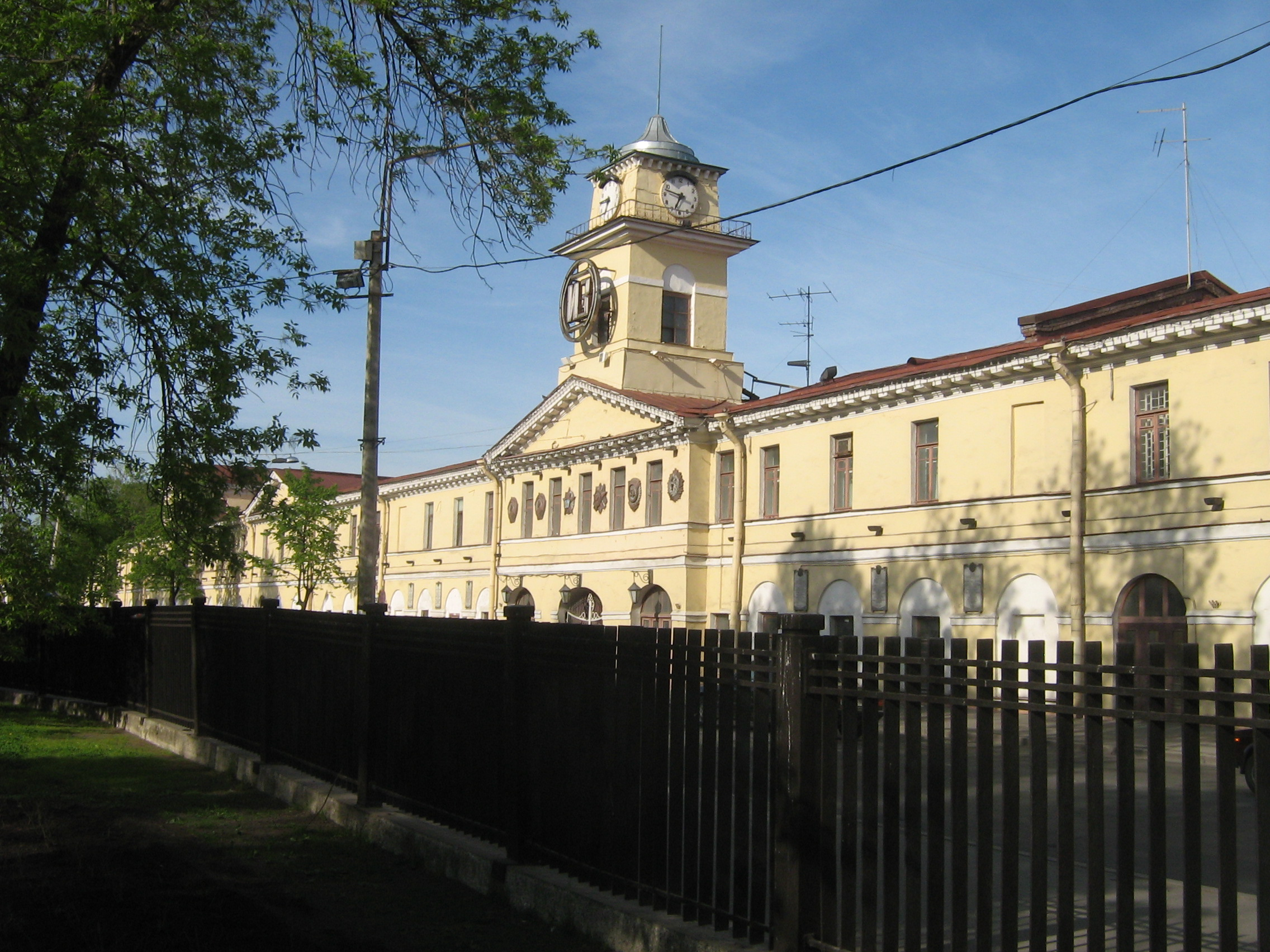 Kolpino (Russia)